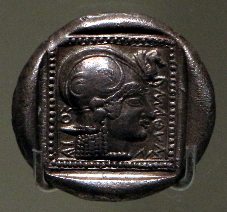 Ancient Greek coins in the Calouste Gulbenkian Museum